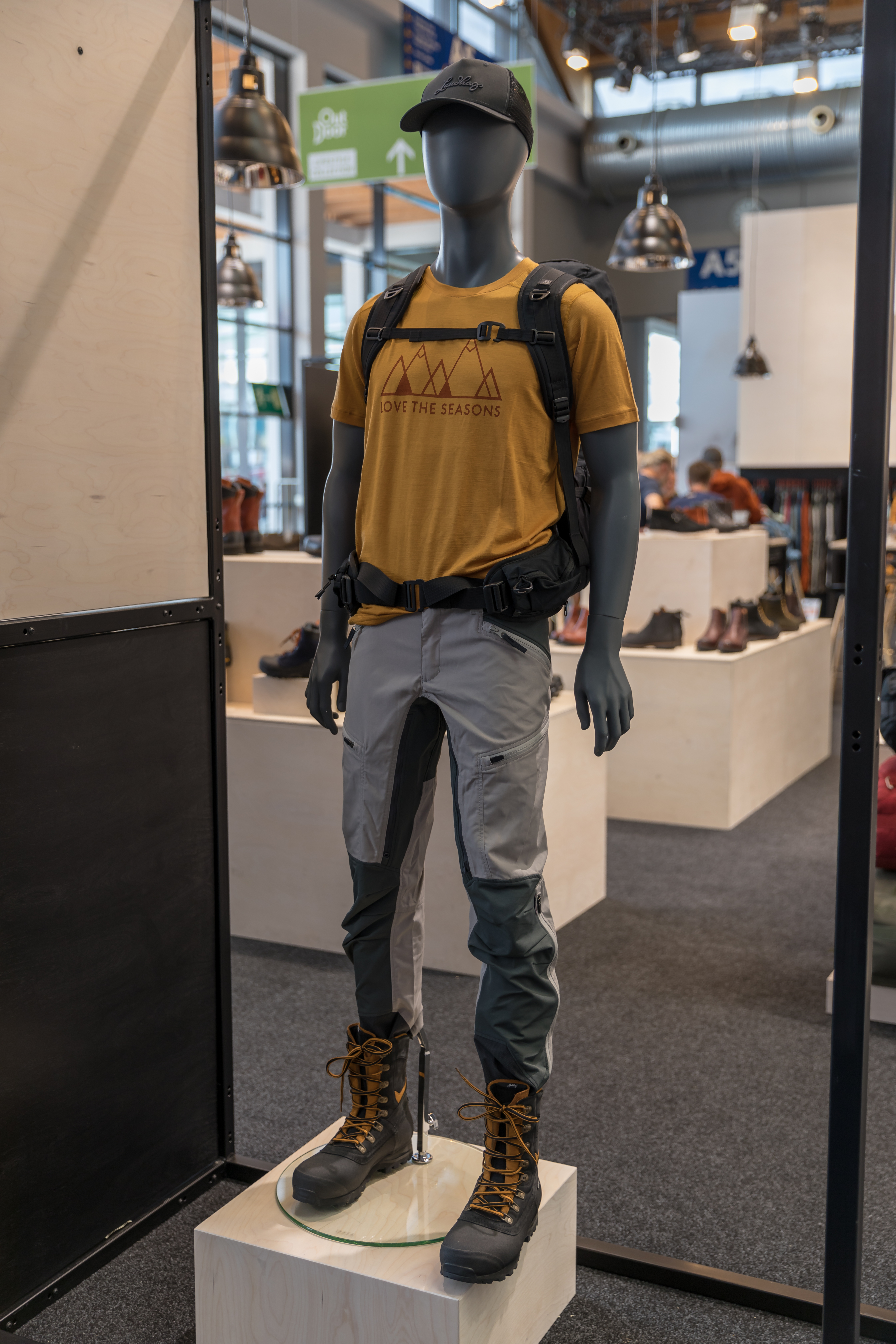 Mannequin in Lundhags clothing, OutDoor 2018